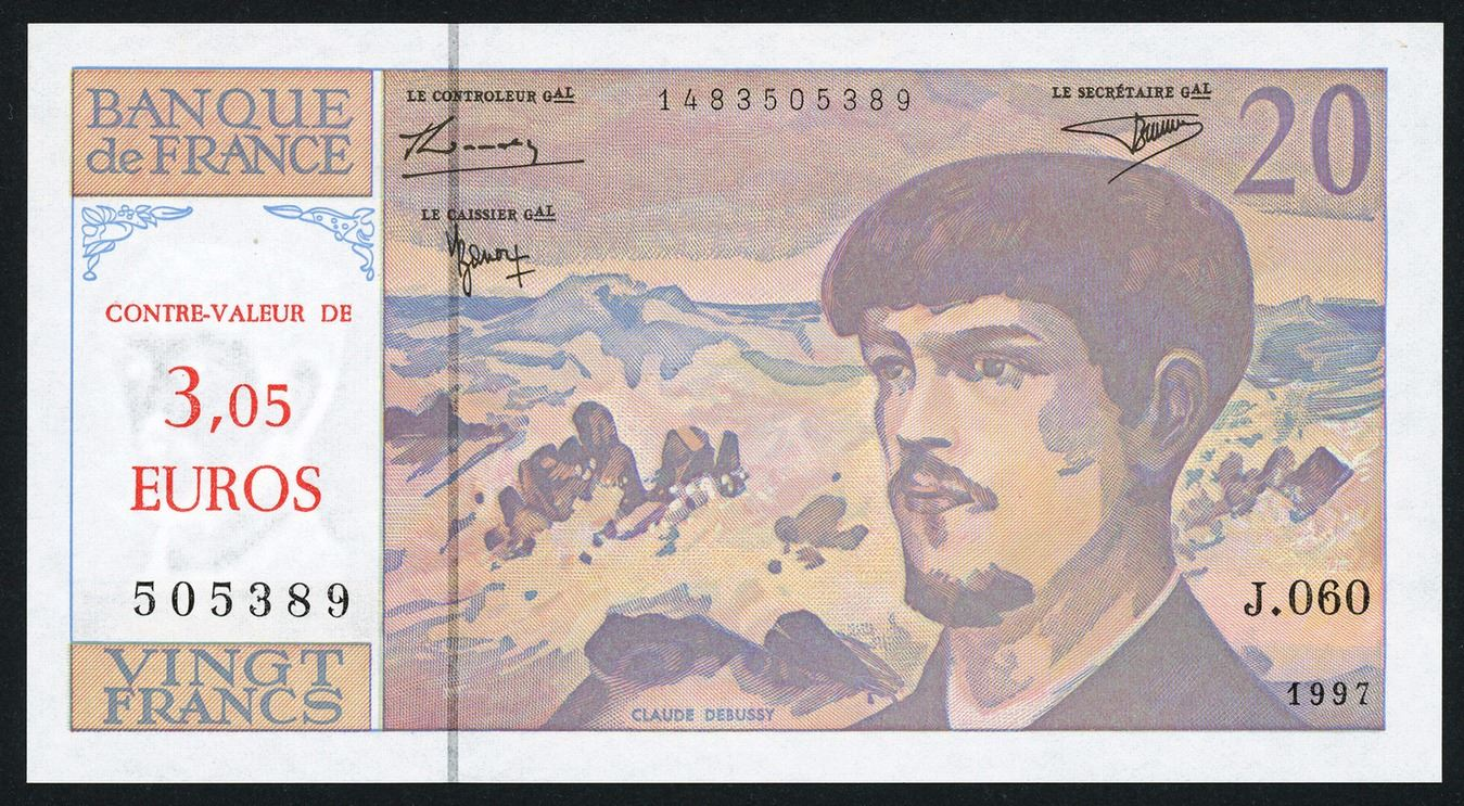 20 francs